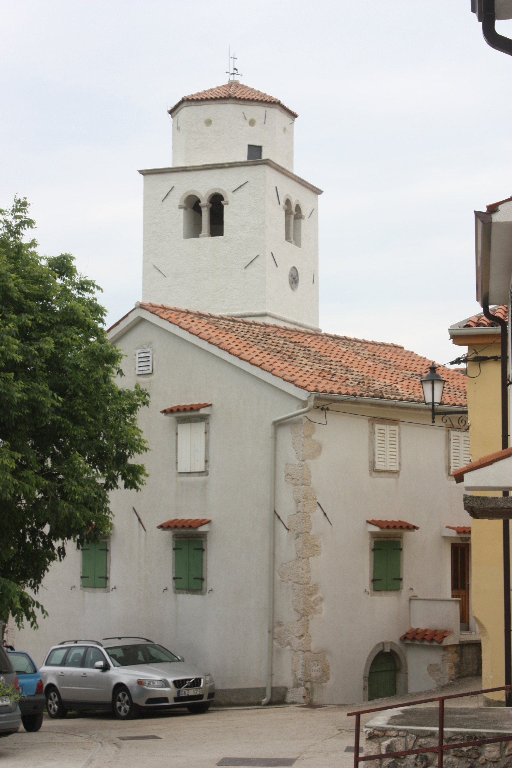 Brseč, the tower of the St. George Church